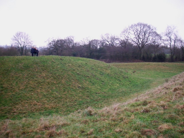 Shotwick Castle earthwork The castle stood on what were once the banks of the Dee, guarding the English-Welsh border. The large earthworks indicate a substantial stronghold. It is thought to date from the early Norman period and in the 13th century was garrisoned against the Welsh.